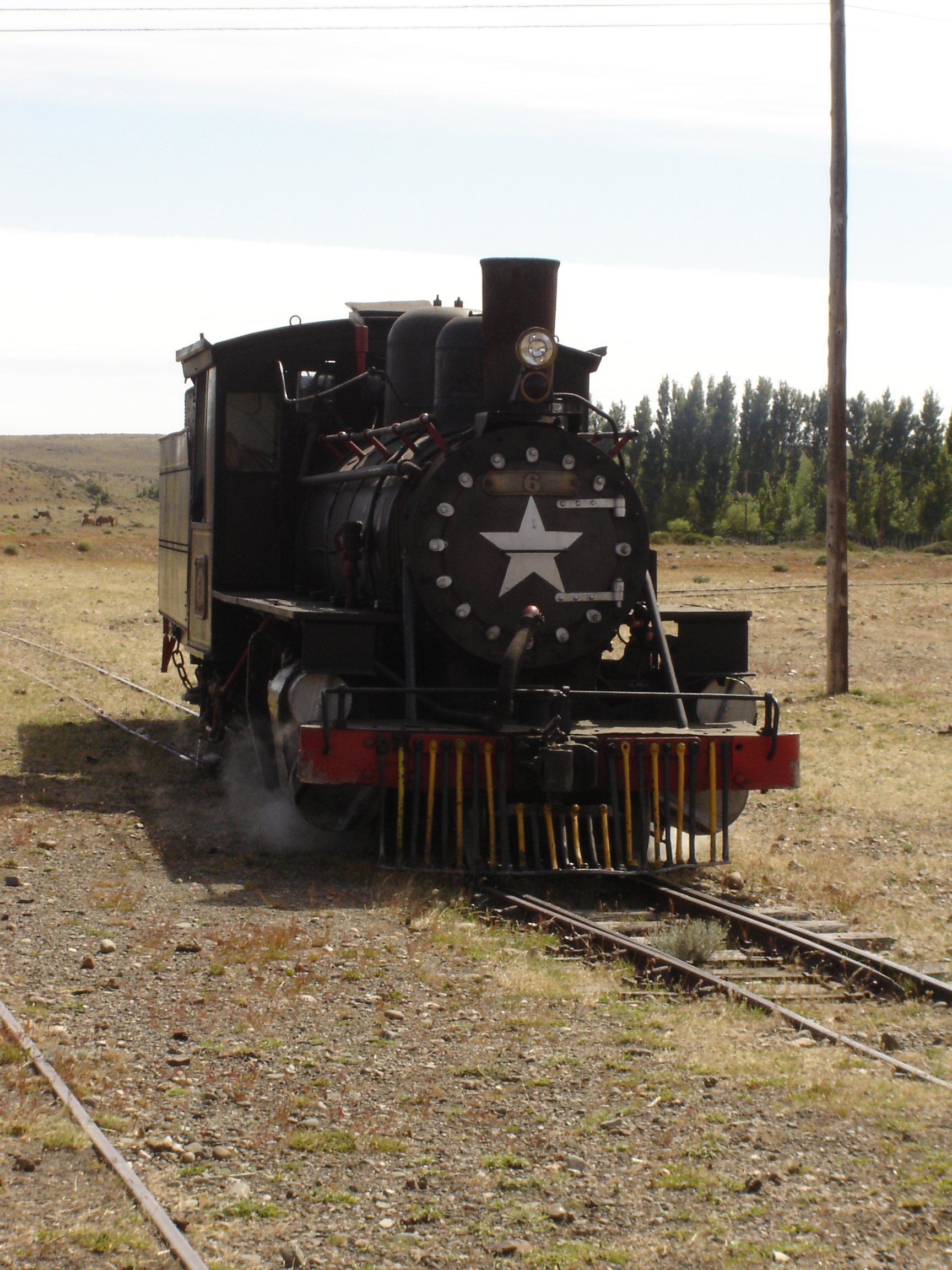 Old Patagonian Express "La Trochita", taken in NAHUEL PAN ESTACION FCGR, U9200XAH, Chubut, Argentina. Province: ISO 3166-2: AR-U. FIPS 10-4: AR04. INDEC: 26. Department: Futaleufú Department. DD: 42°57′00″S 71°11′00″W / 42.95°S 71.1833333°W DMS: 42°57′00″S 71°11′00″W / 42.95°S 71.1833333°W